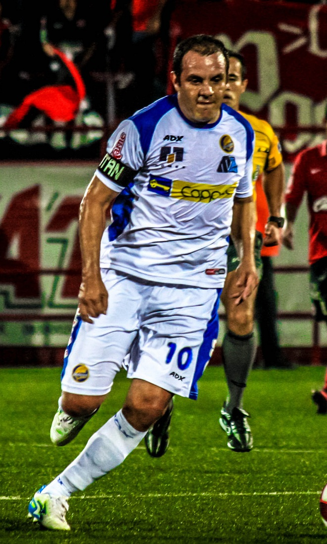 Mexican player Cuauhtémoc Blanco